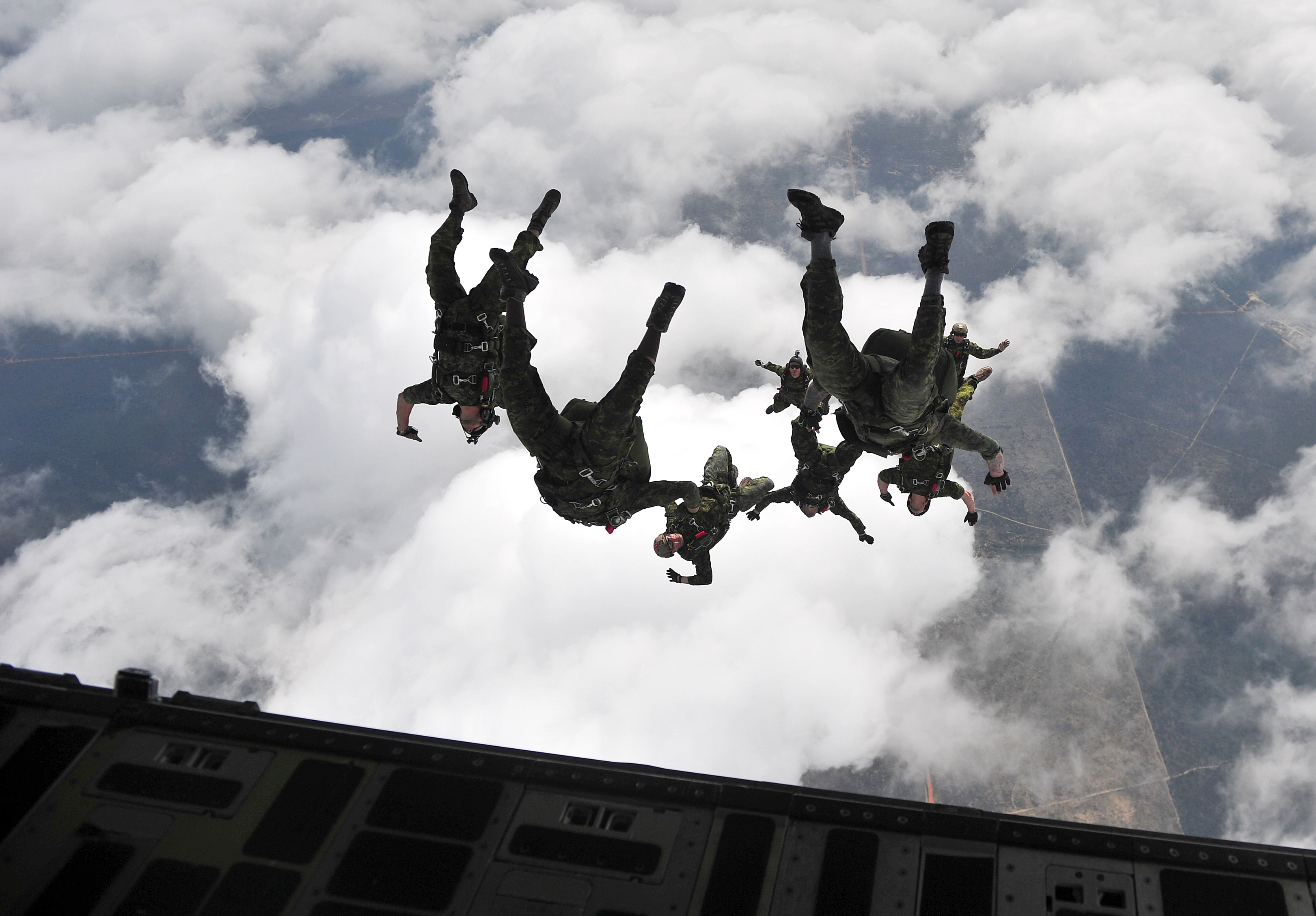 5/6/2013 - Canadian special operation regiment members conduct a freefall jump out of a U.S. Air Force C-17 Globemaster III during Emerald Warrior 2013, Hurlburt Field, Fla., April 28. The primary purpose of Emerald Warrior is to exercise special operations components in urban and irregular warfare settings to support combatant commanders. Emerald Warrior leverages lessons from Operation Iraqi Freedom,Operation Enduring Freedom and other historical lessons to provide better trained and ready forces to combatant commanders. (U.S. Air Force photo by Senior Airman Matthew Bruch)(Released)